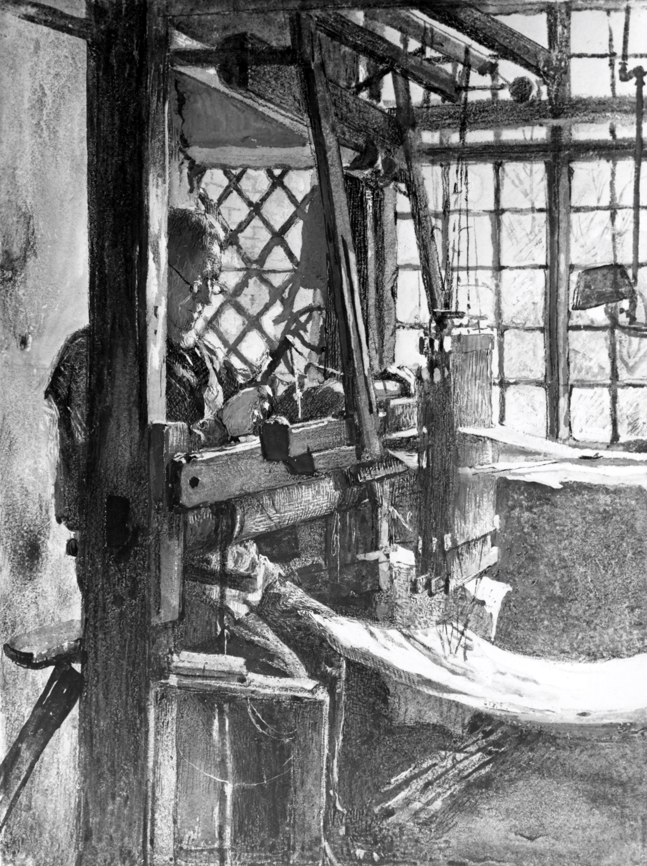 Picture of a man sat at a hand loom weaving